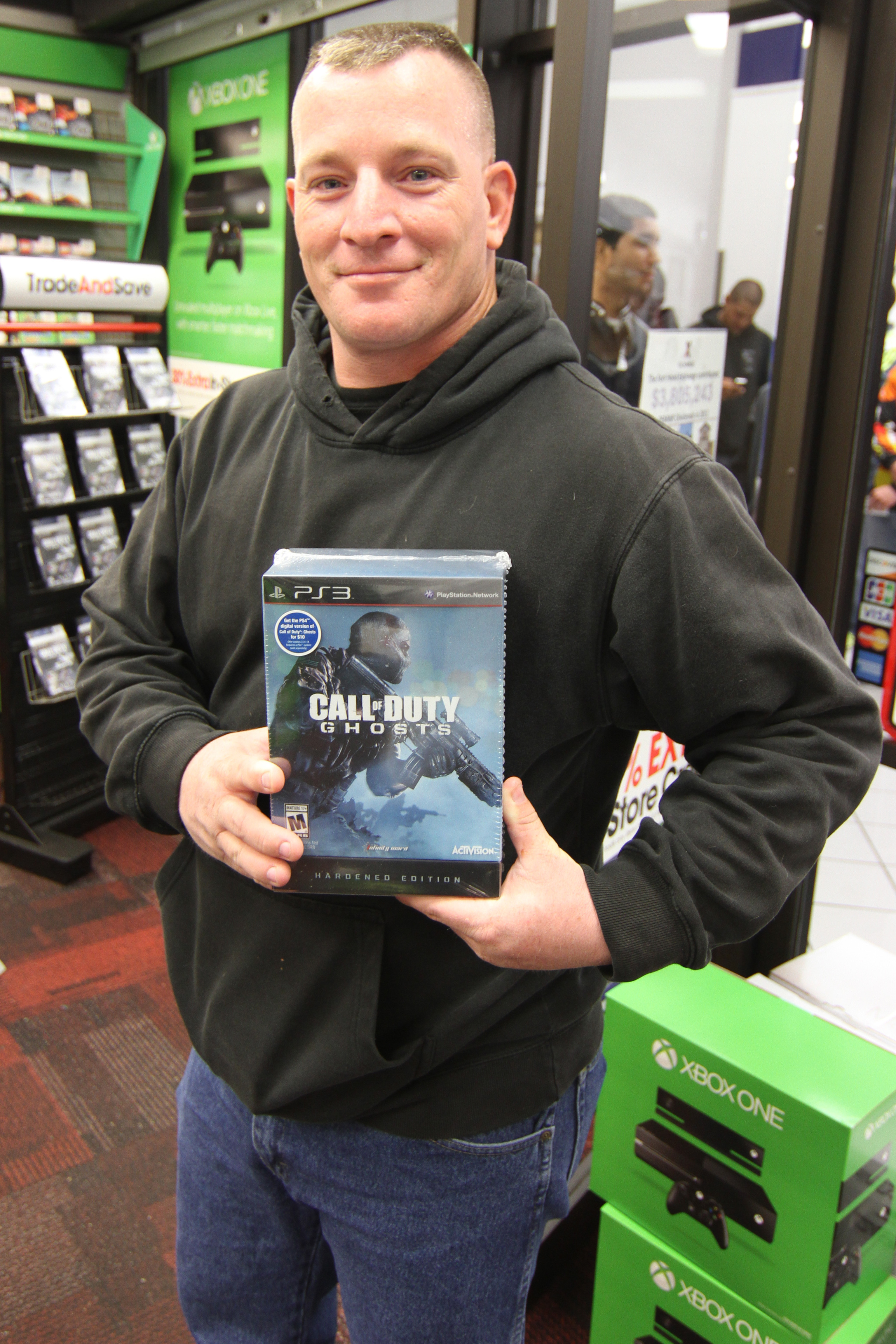 Sgt. Shane Perry with the 401st Military Police Company displays his new "Call of Duty: Ghosts" game during the midnight release at the Clear Creek Post Exchange GameStop, Nov. 5. (Photo by Sgt. Cody Barber, 11th Public Affairs Detachment)